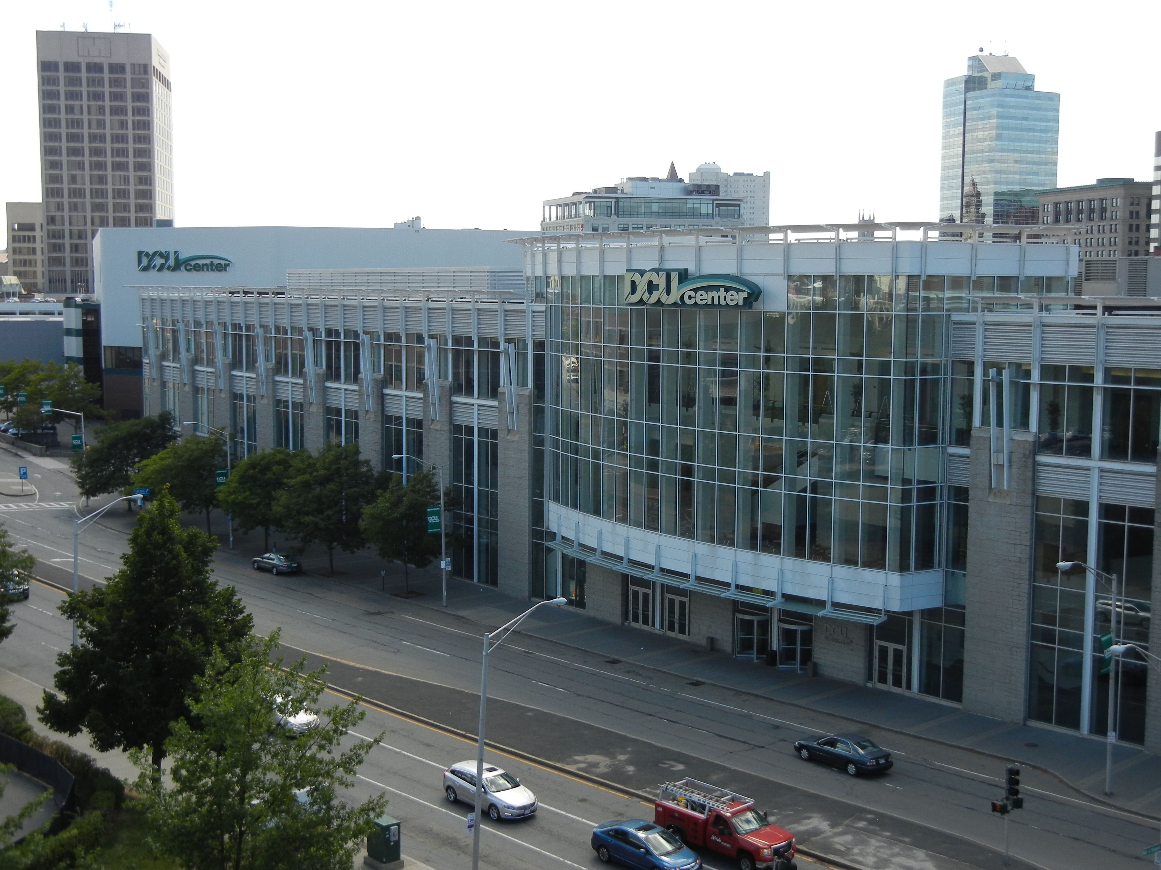 DCU Center Convention Center at 50 Foster St. in Worcester, Massachusetts (USA)